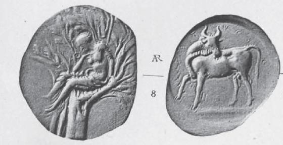 Greek coins and their parent cities (1902) Author: Ward, John, 1832-1912; Hill, George Francis, Sir, 1867-1948 Subject: Coins, Greek; Numismatics, Greek; Greece -- Description, geography; Italy -- Description and travel; Turkey -- Description and travel Publisher: London : Murray Possible copyright status: NOT_IN_COPYRIGHT Language: English Call number: AKB-0671 Digitizing sponsor: MSN Book contributor: Robarts - University of Toronto Collection: toronto Scanfactors: 7